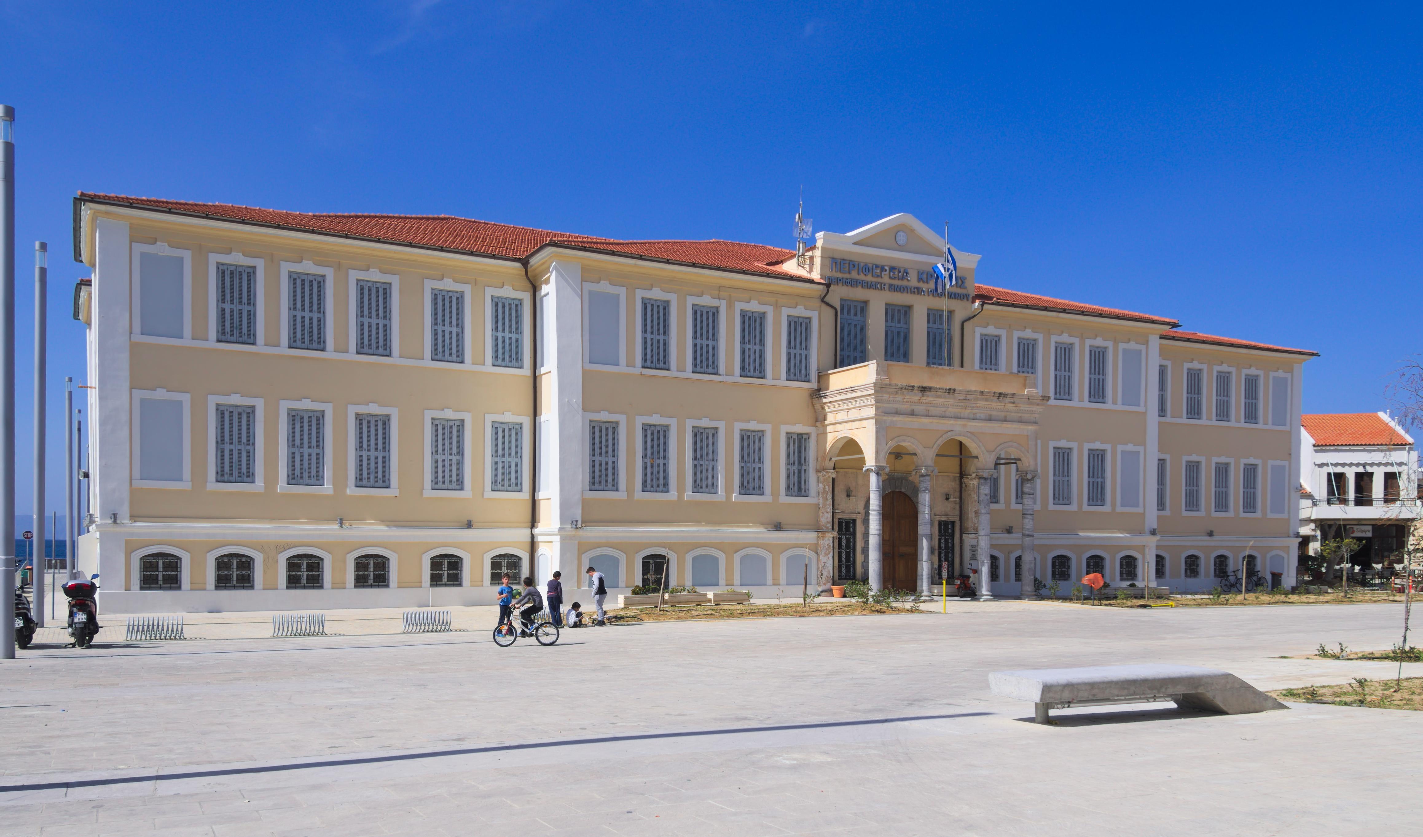 The building of the (former) prefecture of Rethymno. Built in 1845 in neoclassical style.